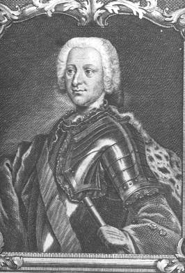 Karl Josef Batthyány (1697–1772), Austrian General of Hungarian origin